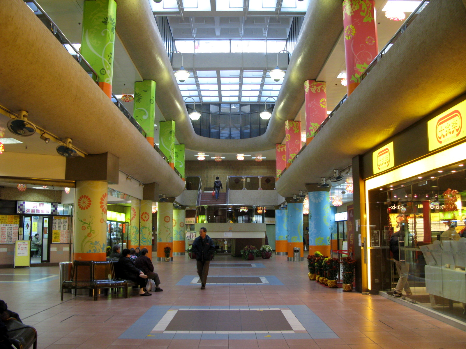 HK Chun Shek Shopping Centre Interior